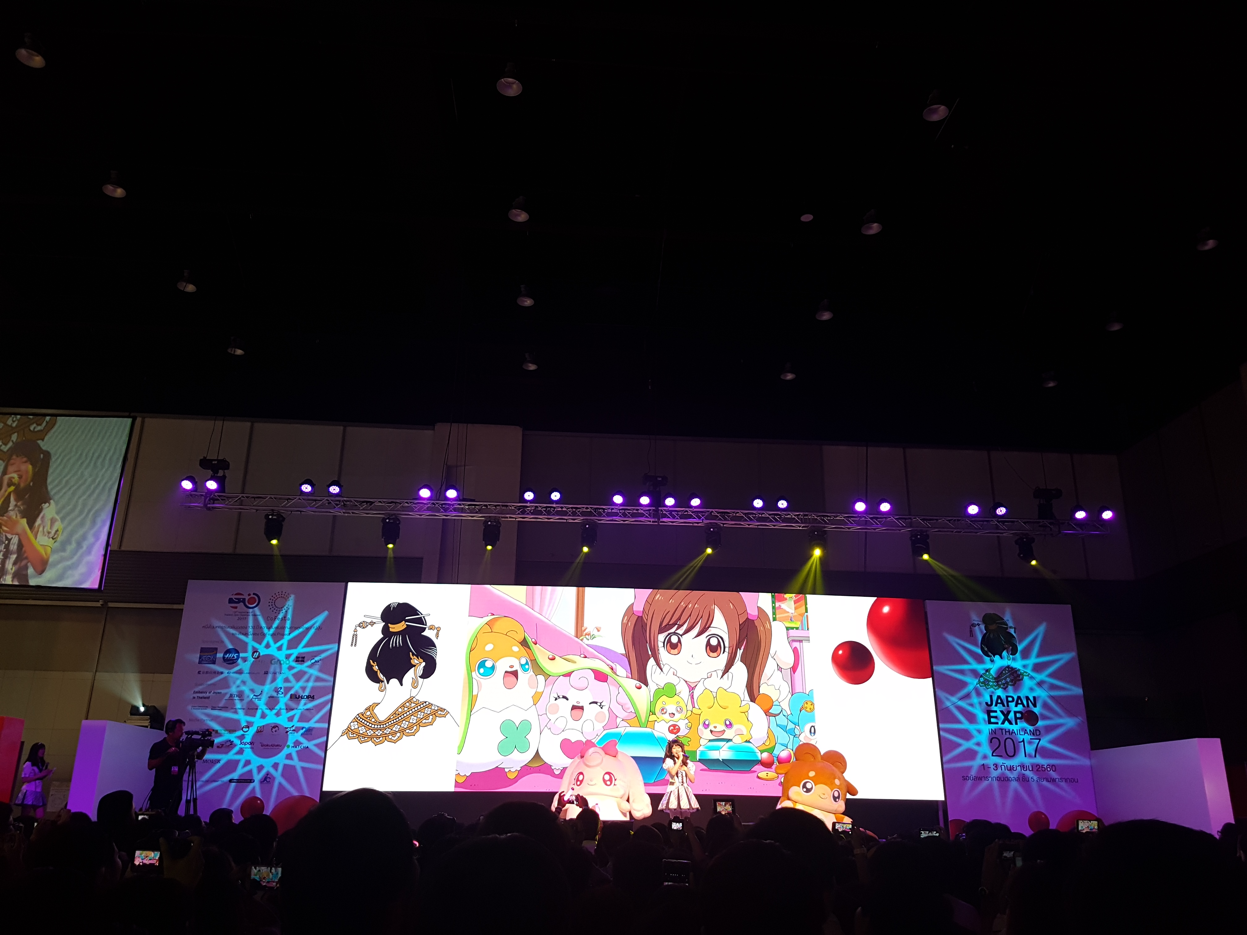 BNK48 at the event Japan Expo in Thailand 2017, held at the Paragon Hall, Floor 5, Siam Paragon, Bangkok, on 1 September 2017. The participating members were Can, Cherprang, Jaa, Jan, Jennis, Kaimook, Miori, Mobile, Music, Namhom, Noey, Pun, Pupe, Rina Izuta, Satchan, and Tarwaan.